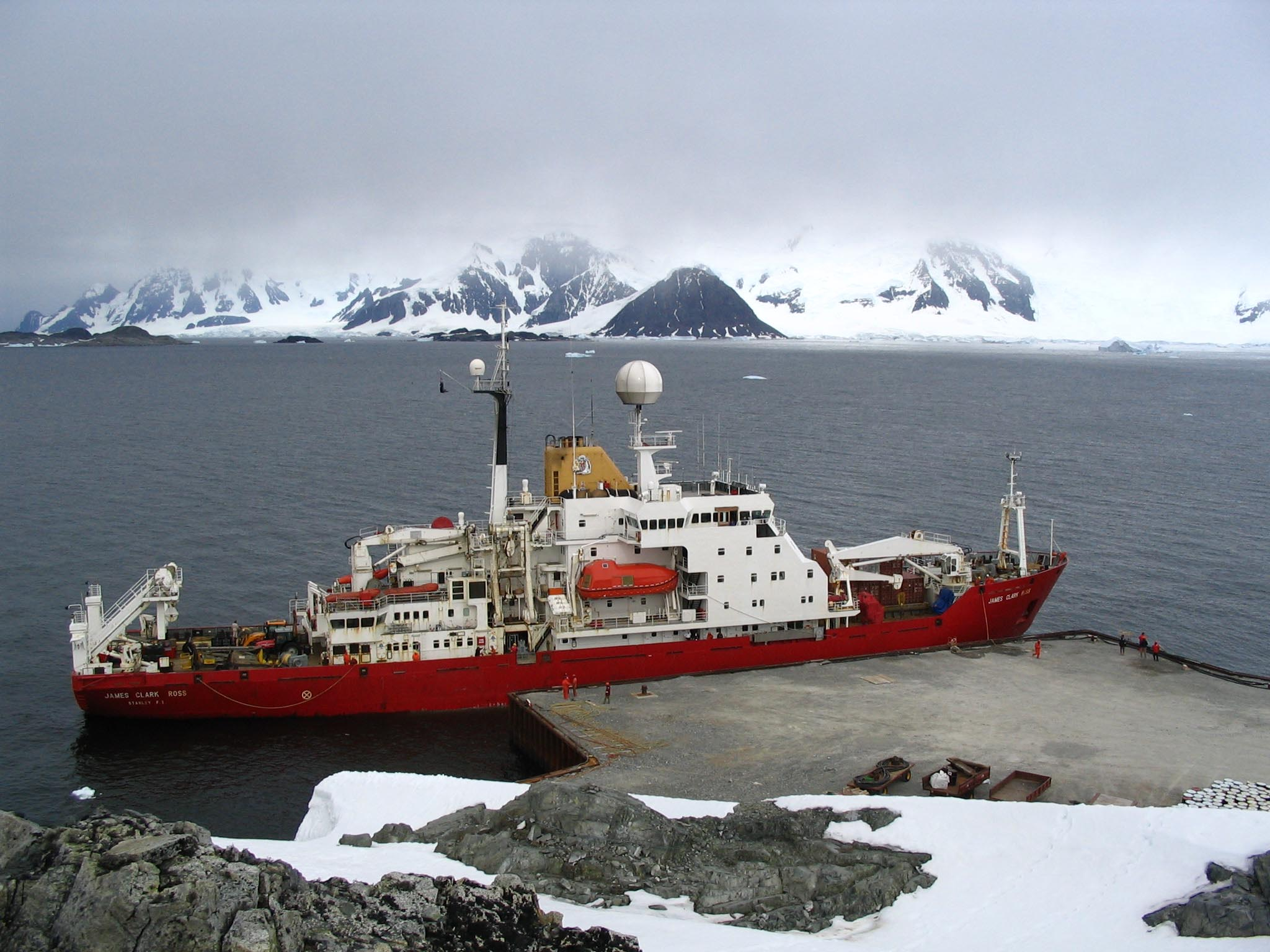 The BAS ship RRS James Clark Ross, at the wharf at Rothera Station, Antarctica